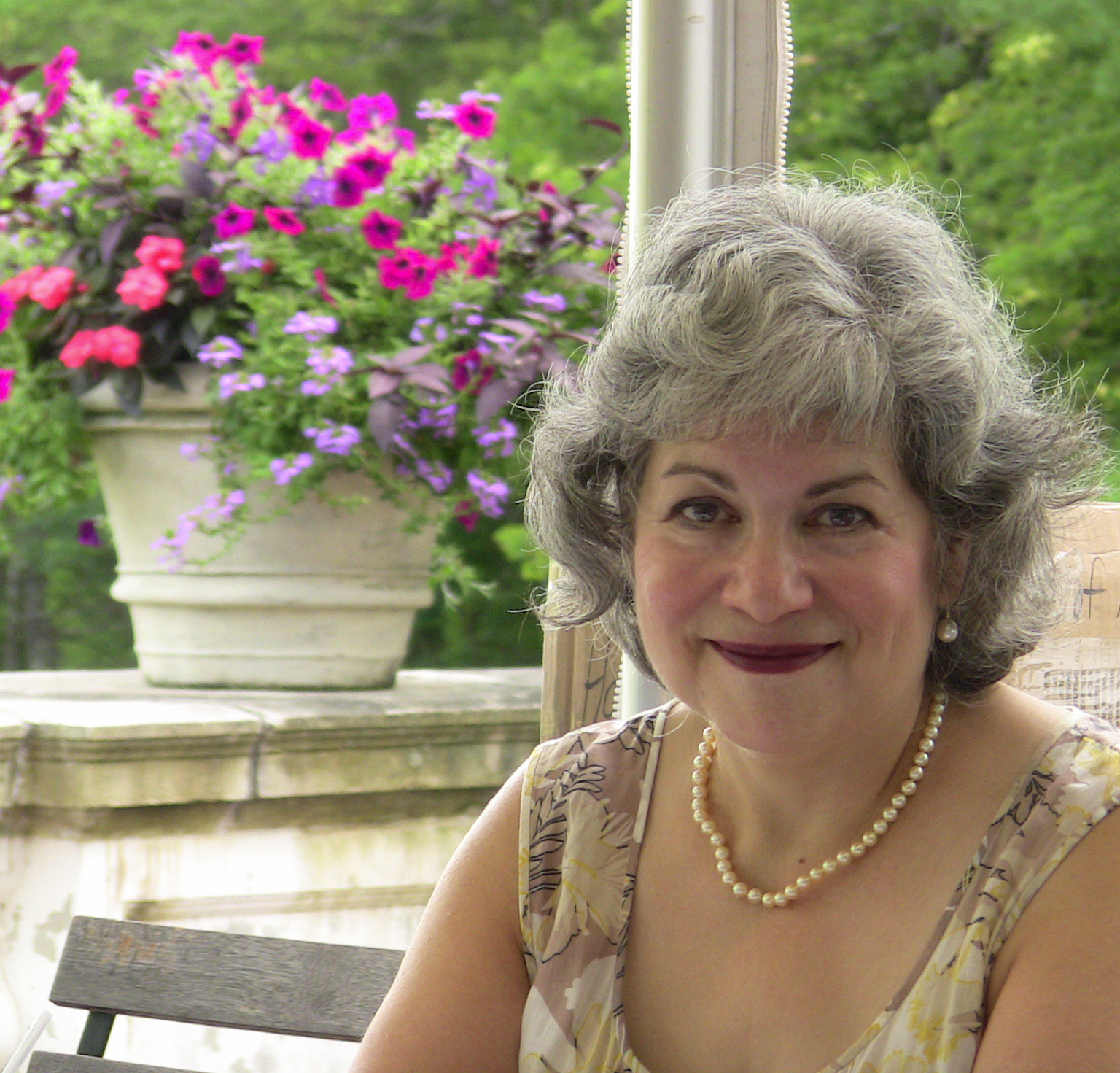 Author Jennie Fields reading from The Age of Desire at The Mount.